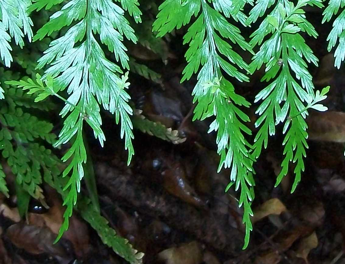 tips of the fronds of Asplenium gracillimum, showing new plantlets. Dee Why, Australia